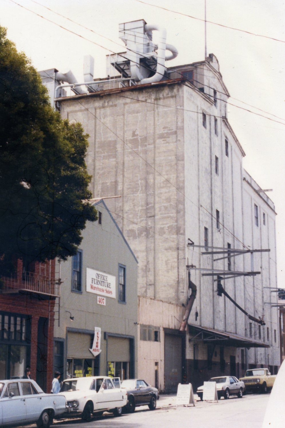 North Beach Malt House at 550 Chestnut Street / 445 Francisco Street